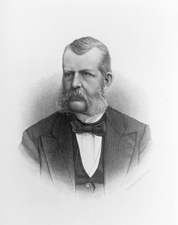 From the Library of Congress